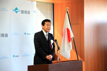 Katsuhiko Yokomitsu, Senior Vice-Minister of the Environment, addressed the commendation ceremony at the Central Government Building No.5 in Chiyoda Ward, Tōkyō Metropolis on January 26, 2012.